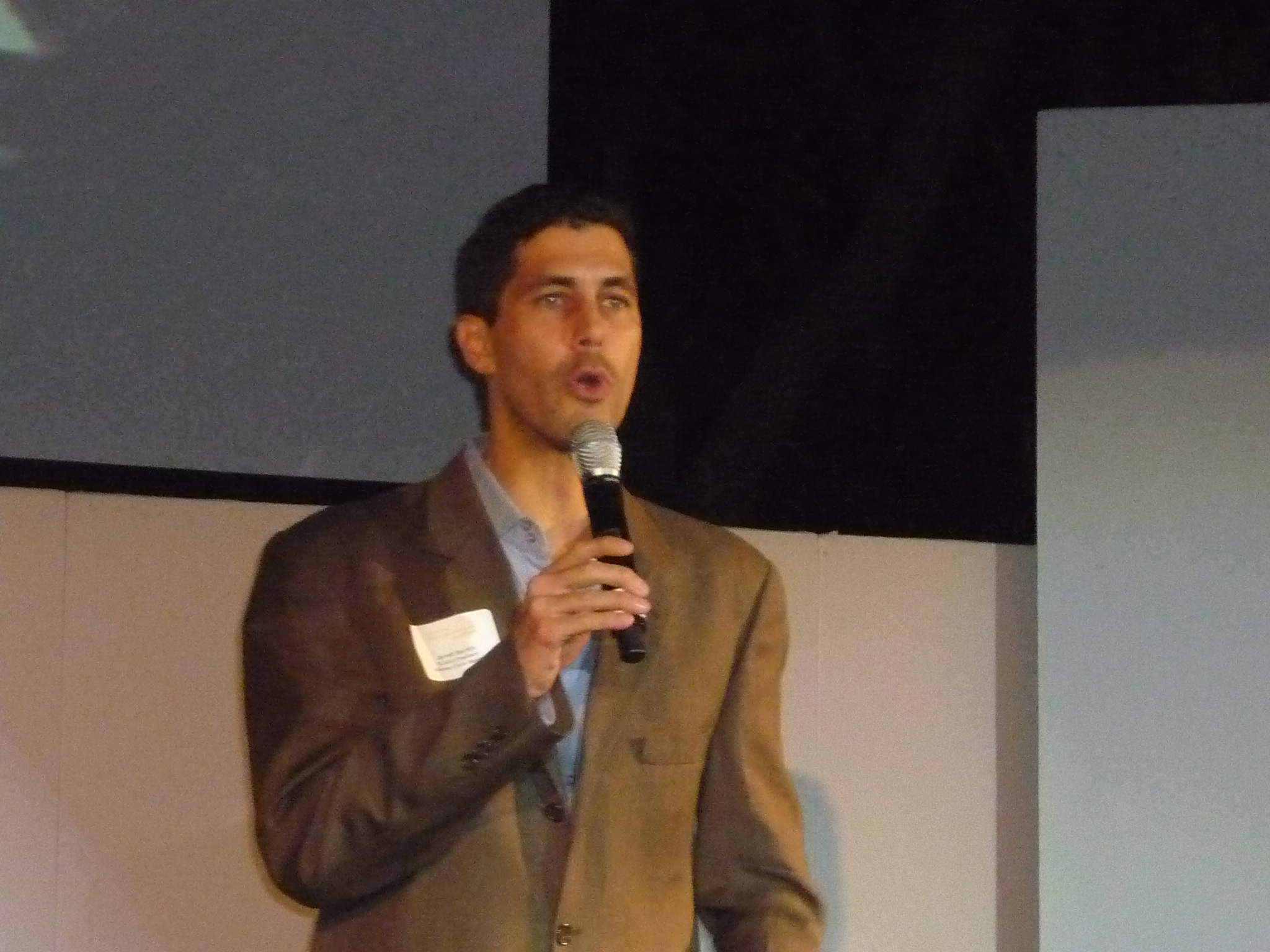 American politician Jarrett Barrios giving passionate speech as the new executive director of GLAAD.